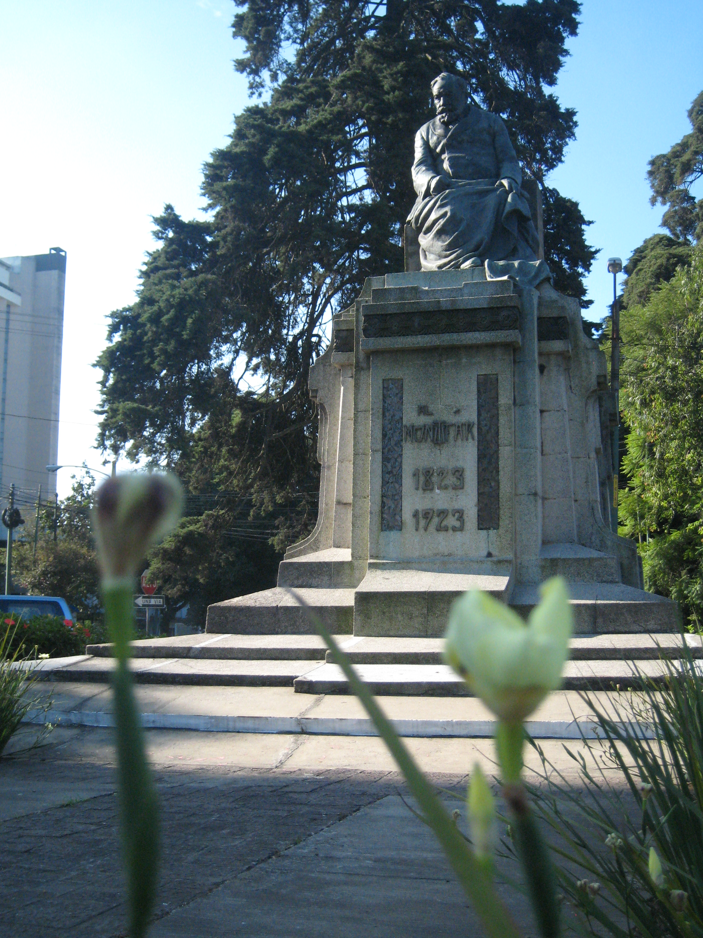 The building of the monument went in honoring to the first centenary of birth of the doctor don Lorenzo Montúfar (1823-1923), during the administration of the president Jose Maria Orellana (1921-1926).